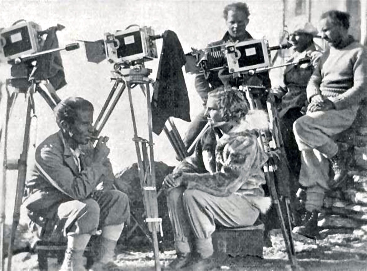 The movie Storm over Montblanc brought together – from the left to the right: cameraman Hans Schneeberger (1895–1970), actor Leni Riefenstahl (1902–2003), cameraman Richard Angst (1905–1984), cameraman Sepp Allgeier (1895–1968), and director Arnold Fanck (1889–1974).